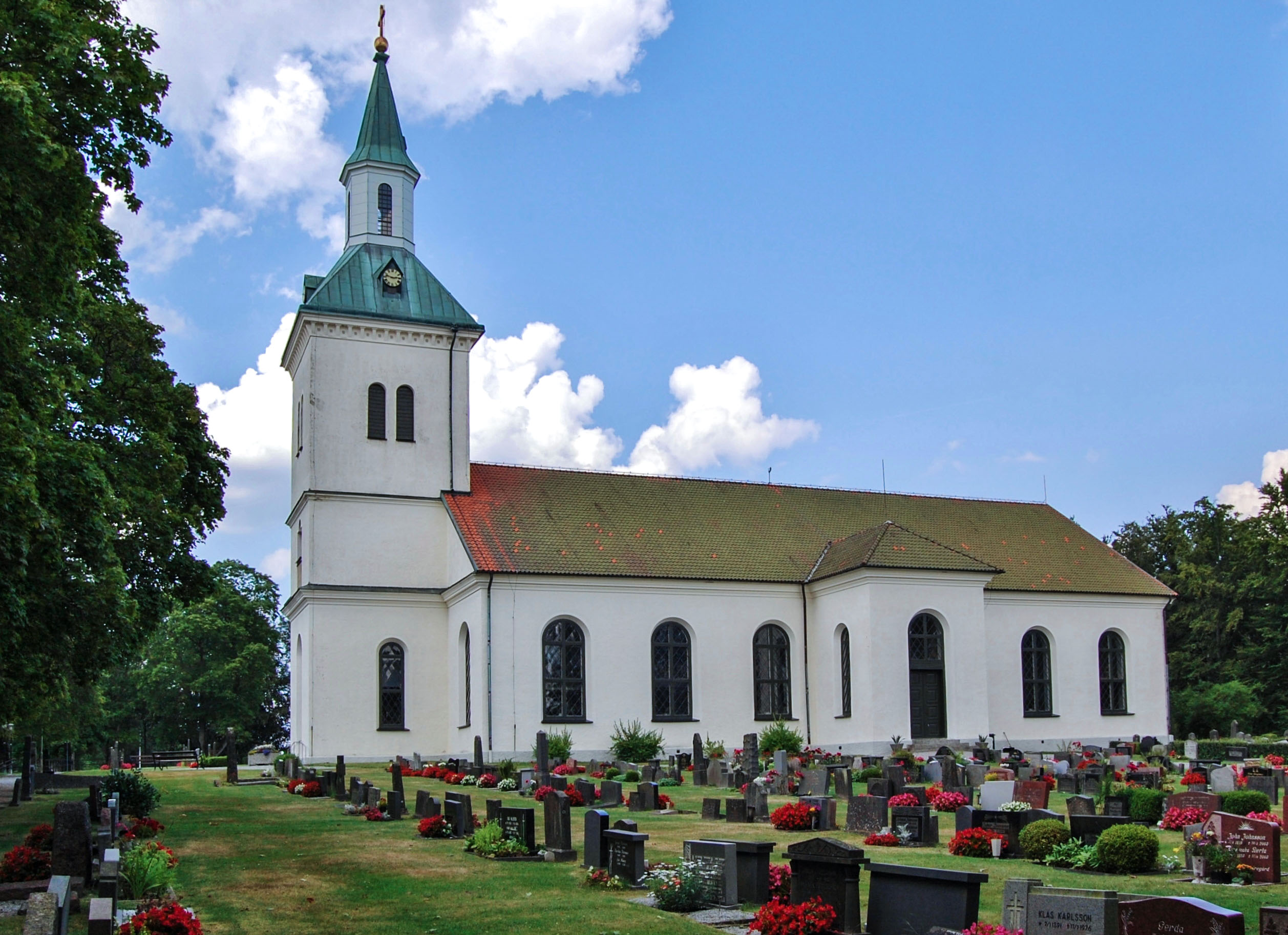 Västra Torsås Church.